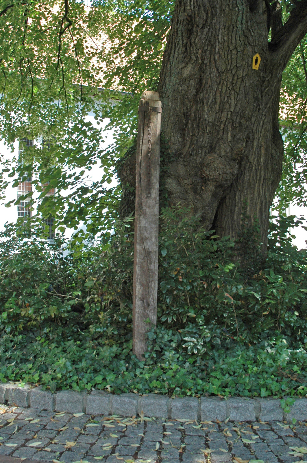 Reconstructed pillory in front of the St. Lucas-Church in Scheeßel